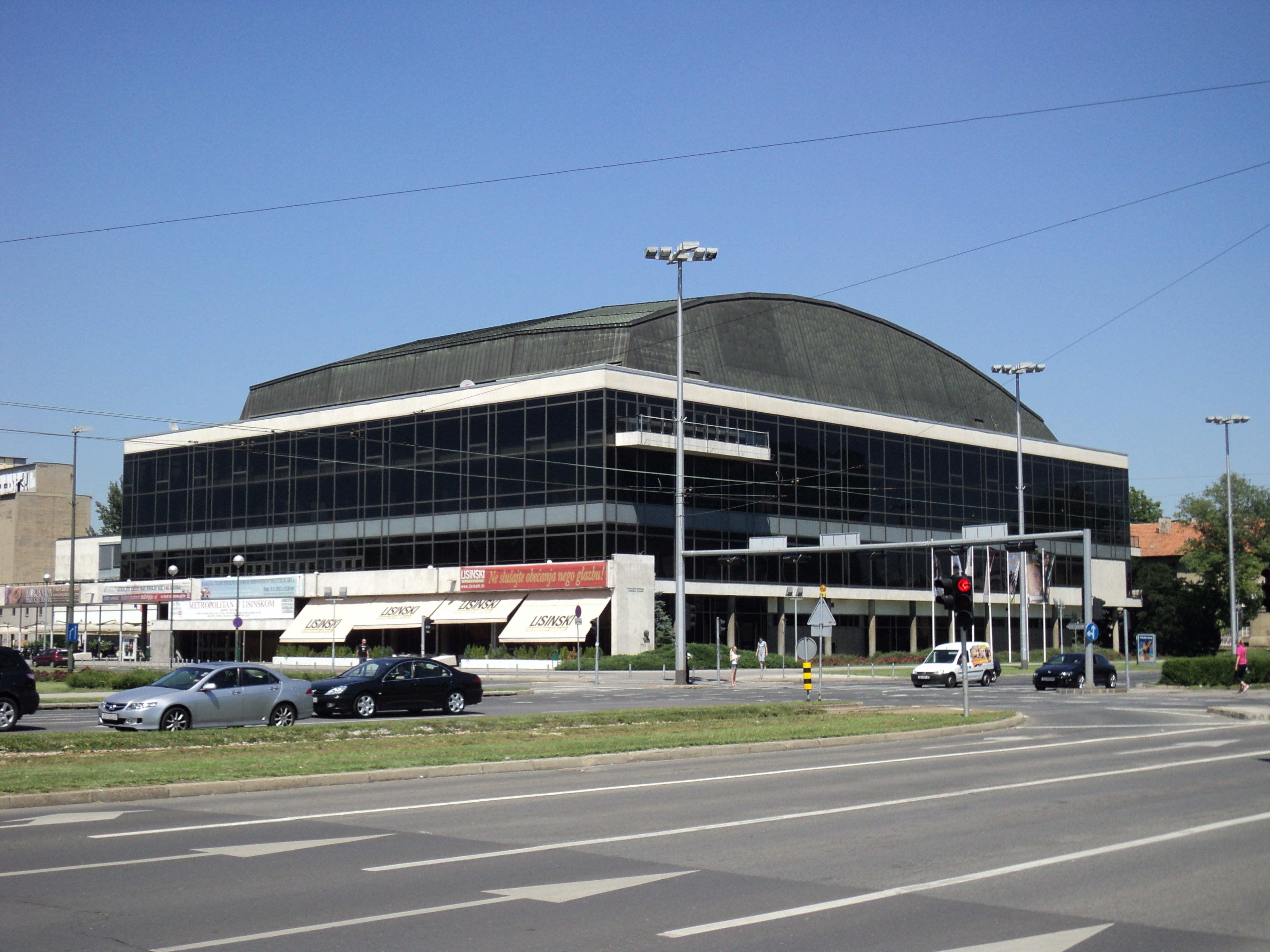 View at the Vatroslav Lisinski Concert Hall in Zagreb.